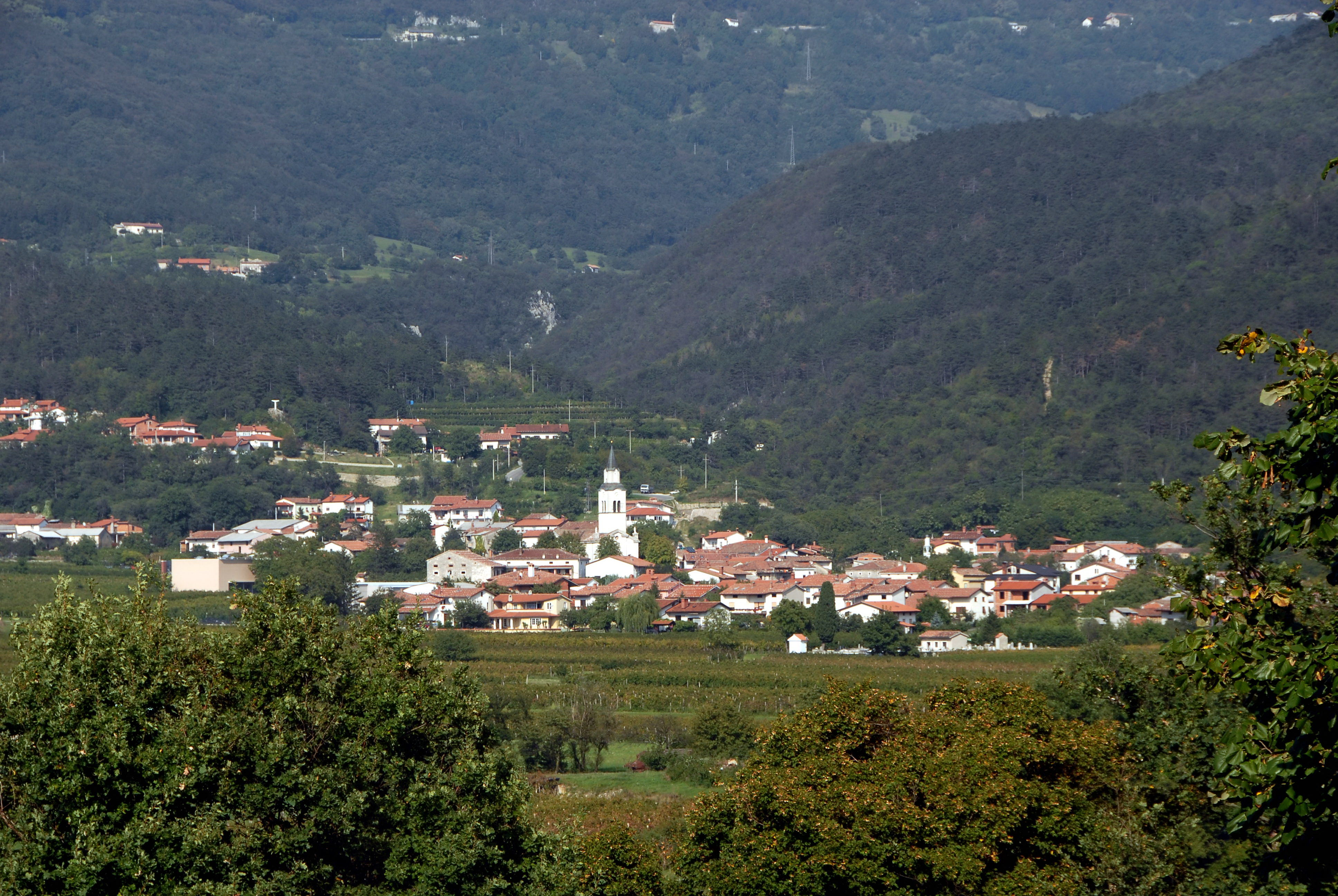 View from the castle in Zemono at the village Vrhpolje in the Bela valley, a side-valley of the Vipava valley, Vipavska Dolina, Goriska, Slovenia